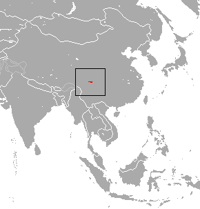 Anderson's Shrew Mole (Uropsilus andersoni) range